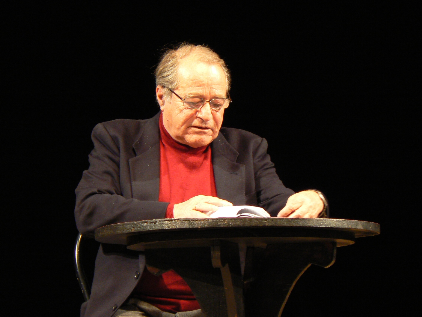 Bulgarian novelist and screenwriter Georgi Danailov